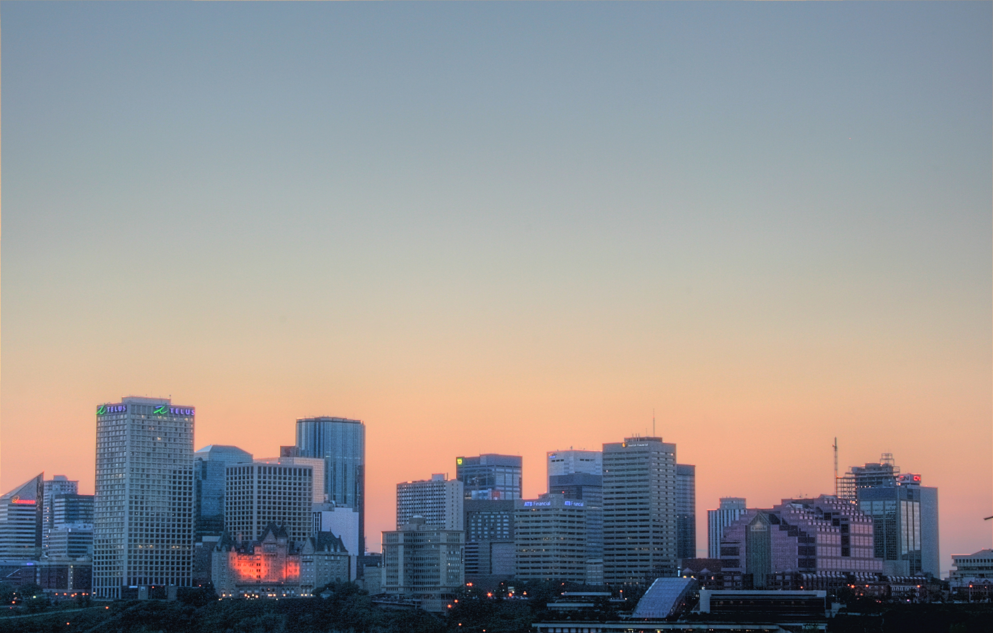 The downtown skyline from the Strathearn neighborhood in Edmonton, Alberta, Canada.